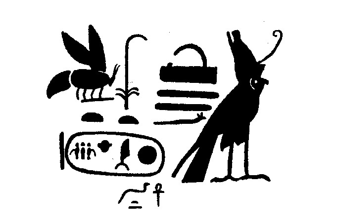 Drawing of a rock inscription with part of the royal titulary of the Nubian ruler Iyibkhentre, from Molokab (Lower Nubia), end 11th-beginning 12th Dynasty.